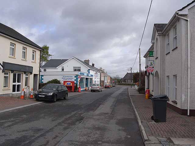 Village street, Newton Gore Nucleated villages are rare in Ireland, but those that do exist all seem to manage to retain a shop, a pub and a post office.